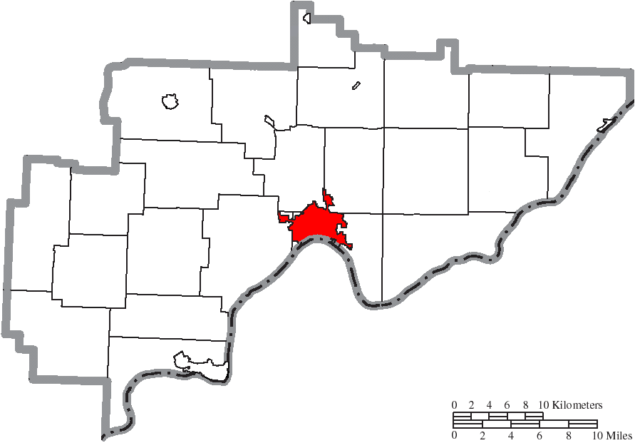 Map of the municipal and township boundaries of Washington County, Ohio, United States, as of the 2000 census, with the location of the city of Marietta highlighted. Township borders are shown only in unincorporated areas in order to differentiate incorporated and unincorporated areas more clearly.